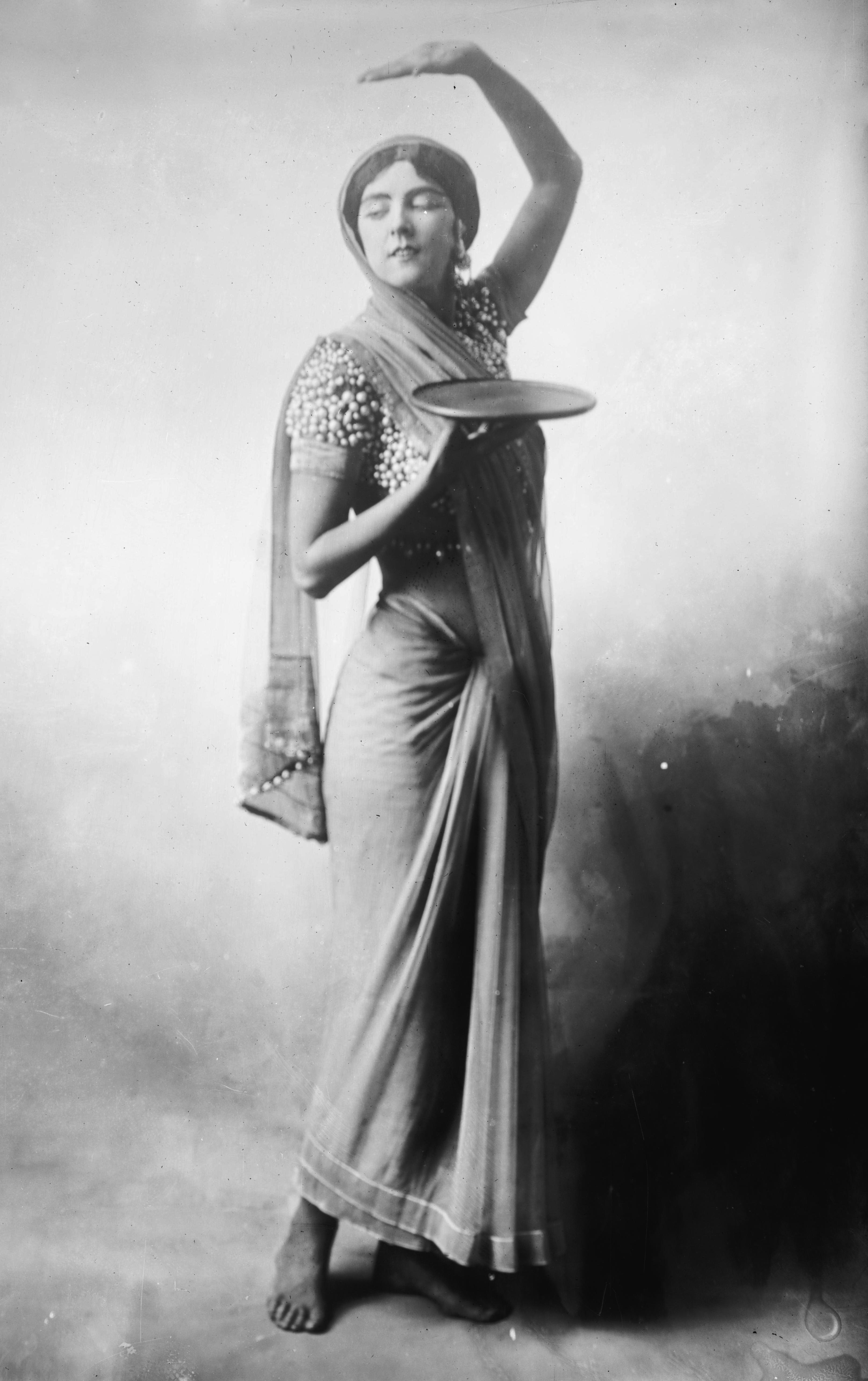 TITLE: Ruth St. Denis CALL NUMBER: LC-B2- 1160-11[P&P] REPRODUCTION NUMBER: LC-DIG-ggbain-05890 (digital file from original neg.) No known restrictions on publication. MEDIUM: 1 negative : glass ; 5 x 7 in. or smaller. CREATED/PUBLISHED: [no date recorded on caption card] CREATOR: Bain News Service, publisher. NOTES: Forms part of: George Grantham Bain Collection (Library of Congress). Title from unverified data provided by the Bain News Service on the negatives or caption cards. General information about the Bain Collection is available at TOPICS: Theatrical FORMAT: Glass negatives. REPOSITORY: Library of Congress Prints and Photographs Division Washington, D.C. 20540 USA DIGITAL ID: (digital file from original neg.) ggbain 05890 CARD #: ggb2004005890